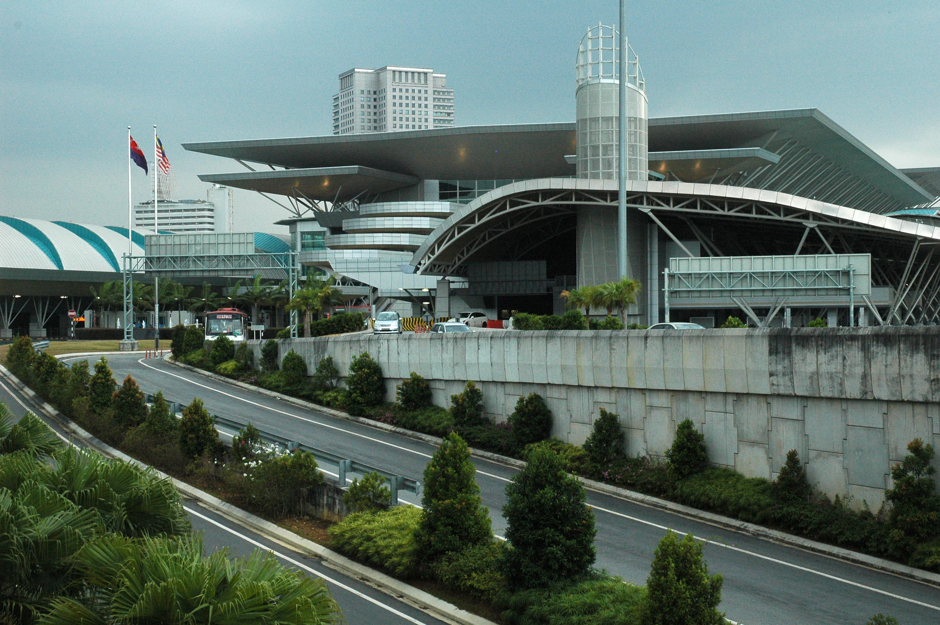 Sultan Iskandar Customs, Immigration and Quarantine Complex in Johor Bahru, Malaysia. Taken on February 8, 2009 from the west side of the complex.